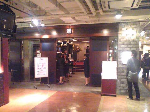 Shinkobe Oriental Theater entrance